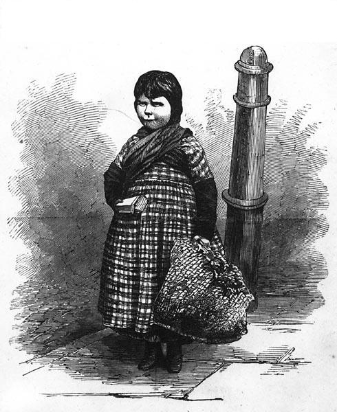 «The Lucifer Match Girl», illustration from London Labour and the London poor (Modified image: The reference to the TUC Library Collection in the upper left corner is removed)